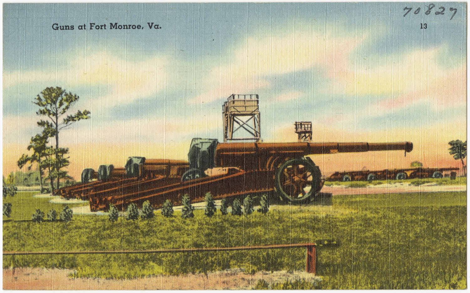 File name: 06_10_021006 Title: Guns at Fort Monroe, Va. Created/Published: Pub. by Dominion News Agency, Newport News, VA. Tichnor Quality Views, Reg. U. S. Pat. Off. Made Only by Tichnor Bros., Inc., Boston, Mass. Date issued: 1930 - 1945 (approximate) Physical description: 1 print (postcard) : linen texture, color ; 3 1/2 x 5 1/2 in. Genre: Postcards Subject: Military facilities Notes: Title from item. Collection: The Tichnor Brothers Collection Location: Boston Public Library, Print Department Rights: No known restrictions